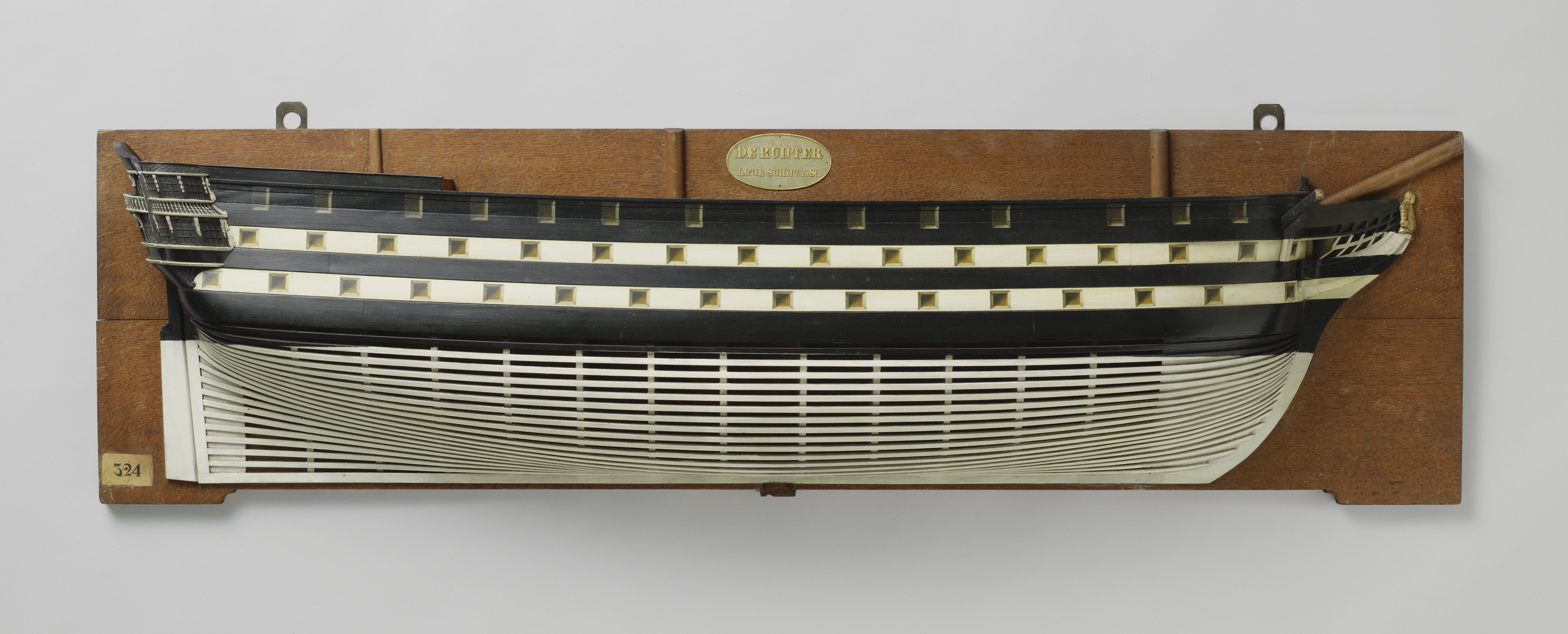 Model of the De Ruyter as ship of the line of 74 guns in 1831. In 1843, while still under construction, the De Ruyter was razeed or redesigned to become a frigate of 51 guns. She was launched in 1853. The model is now in the Rijksmuseum. Dimensions: h 36.9 cm × w 134.7 cm × d 16.6 cm